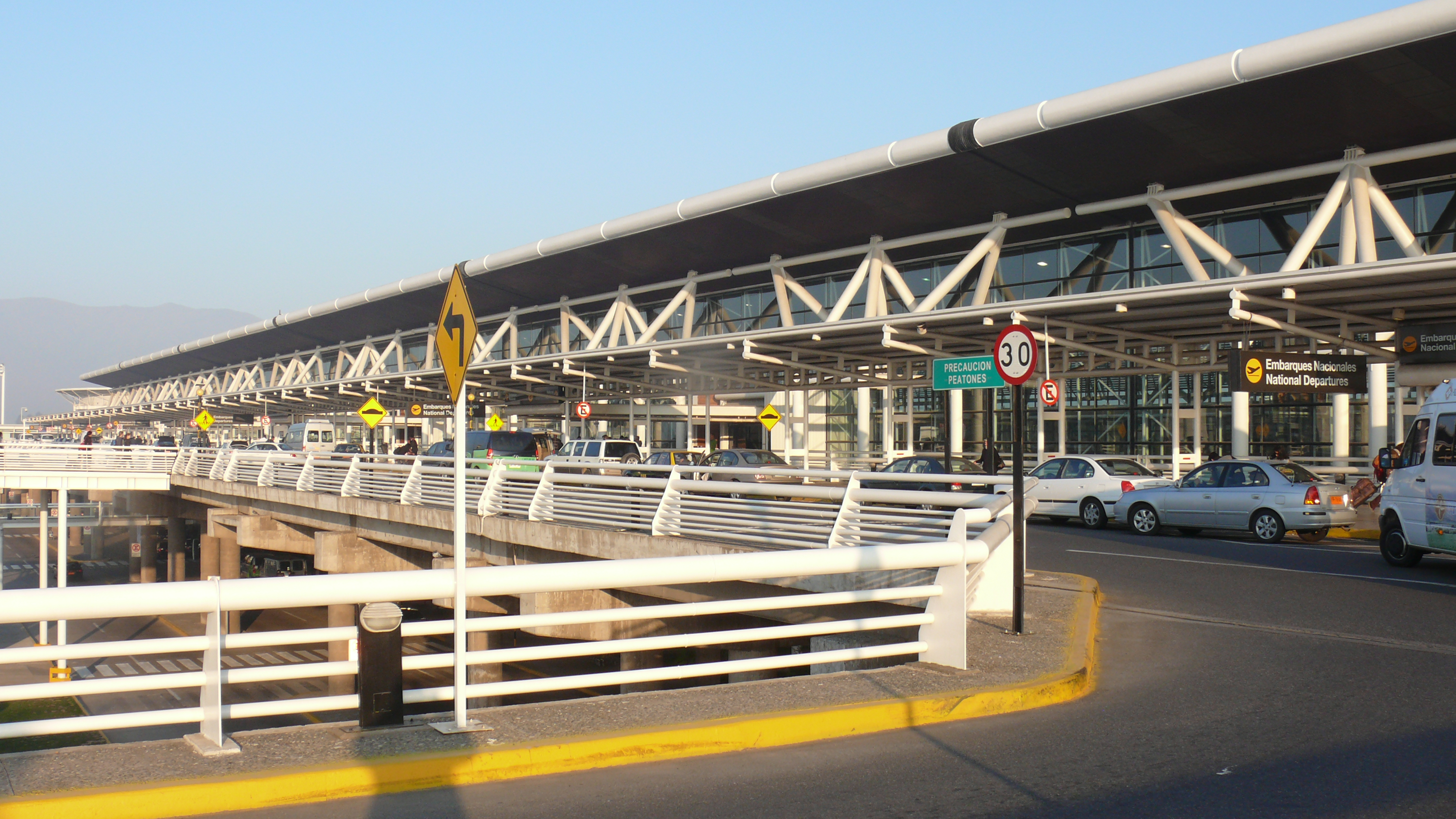 Comodoro Arturo Merino Benítez International Airport, passenger terminal